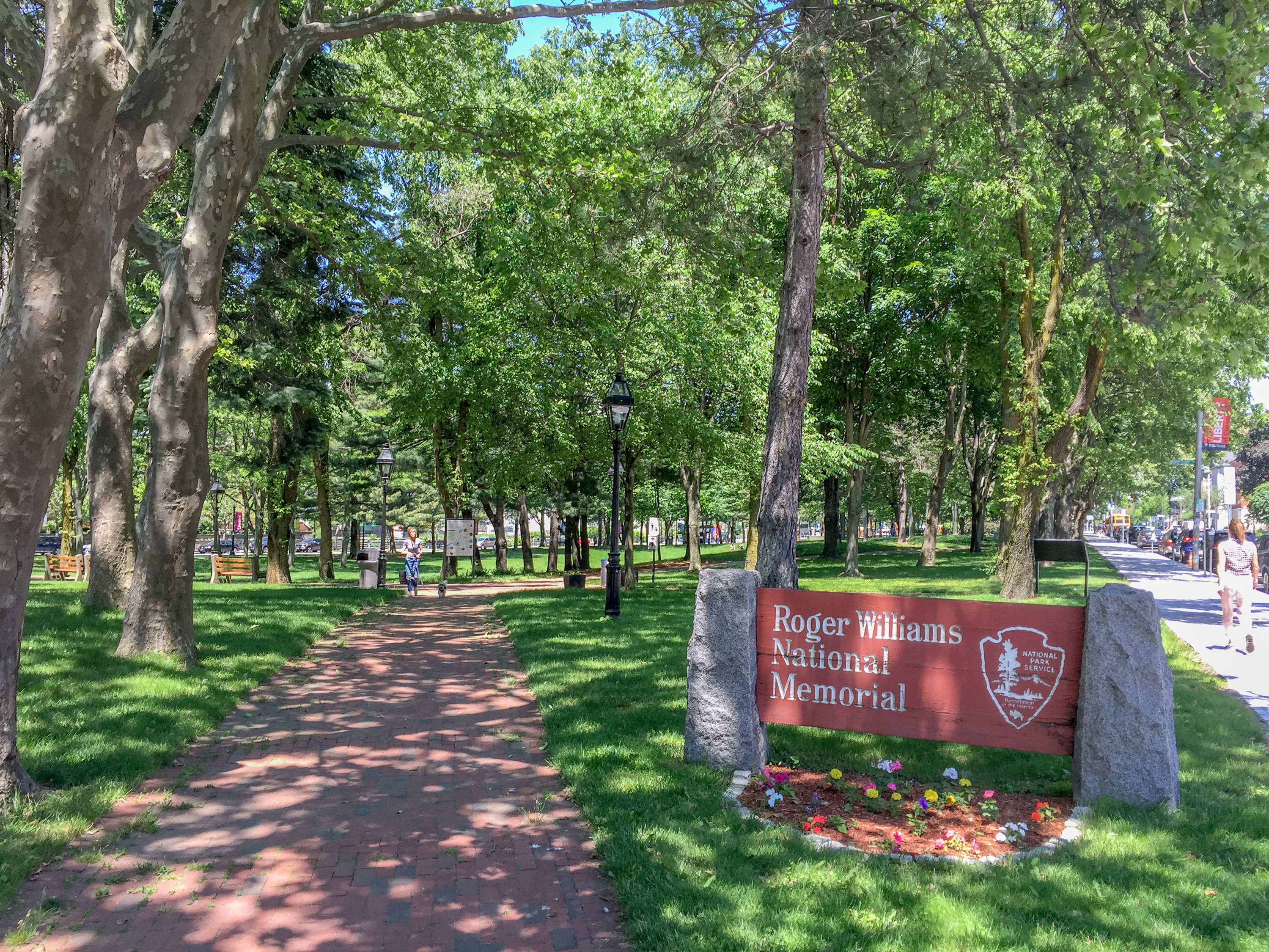 Roger Williams National Memorial sign, Providence Rhode Island